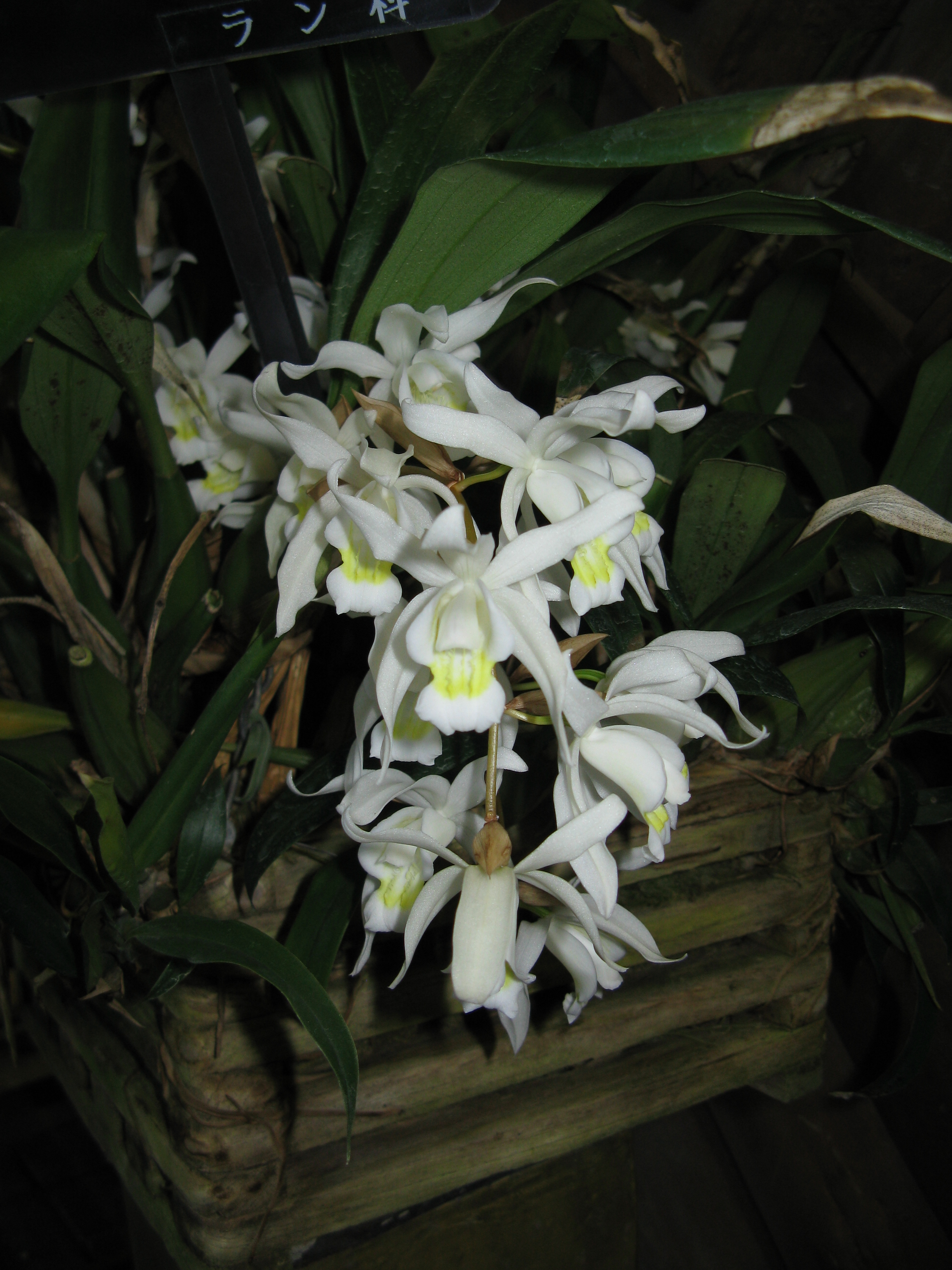 Cultivar name Coelogyne Intermedia. (Coelogyne cristata × Coelogyne tomentosa) Place:Osaka Prefectural Flower Garden,Osaka,Japan